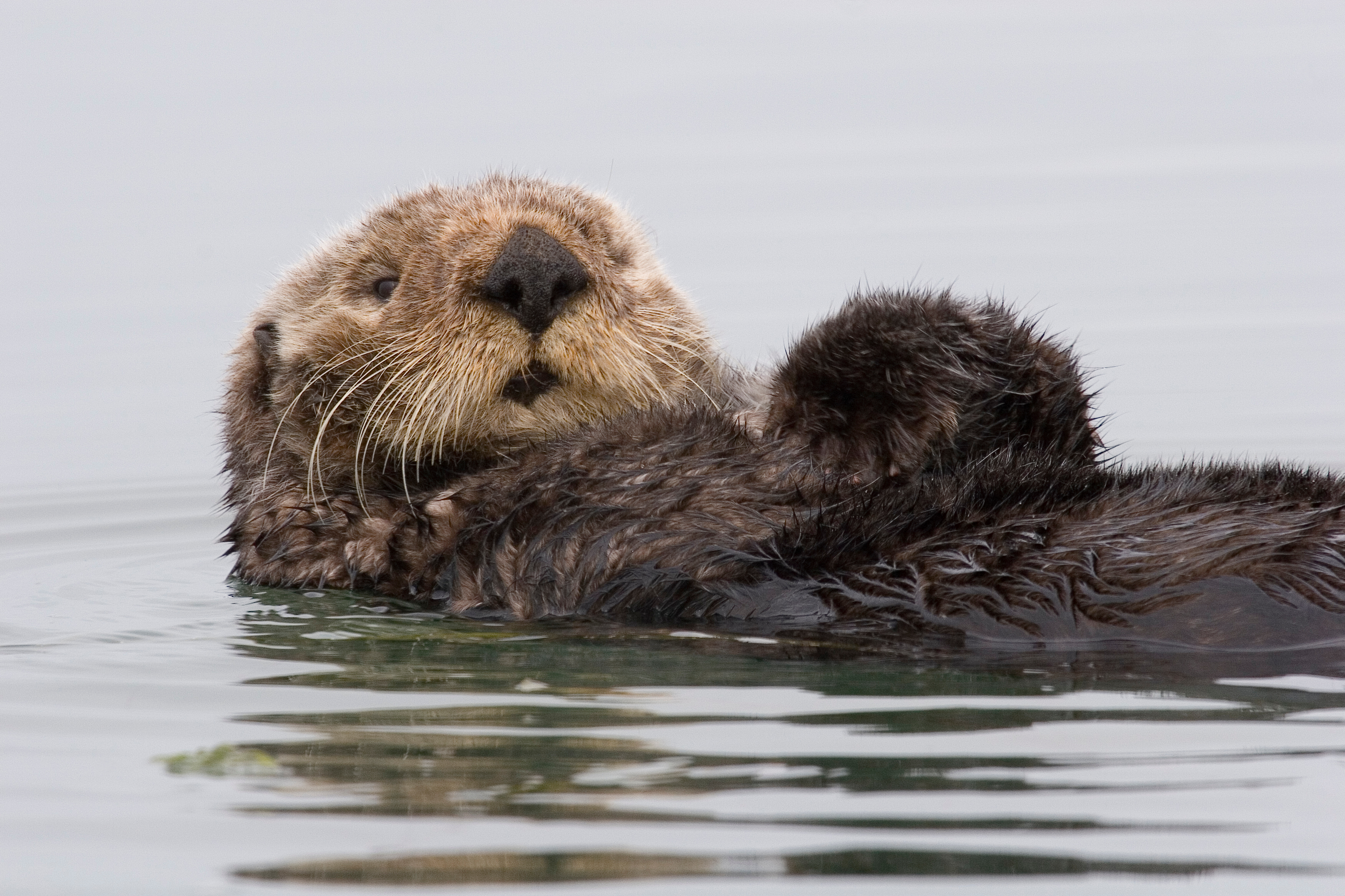 Sea Otter (Enhydra lutris) preening itself in Morro Bay Feb. 21, 2007. taken from a kayak on a calm day... this critter got very comfortable with us... so we did not molest it by drifting fairly close. In fact, I discarded many shots because the focus range was set for ≥6.5 meters, and I was closer than that.